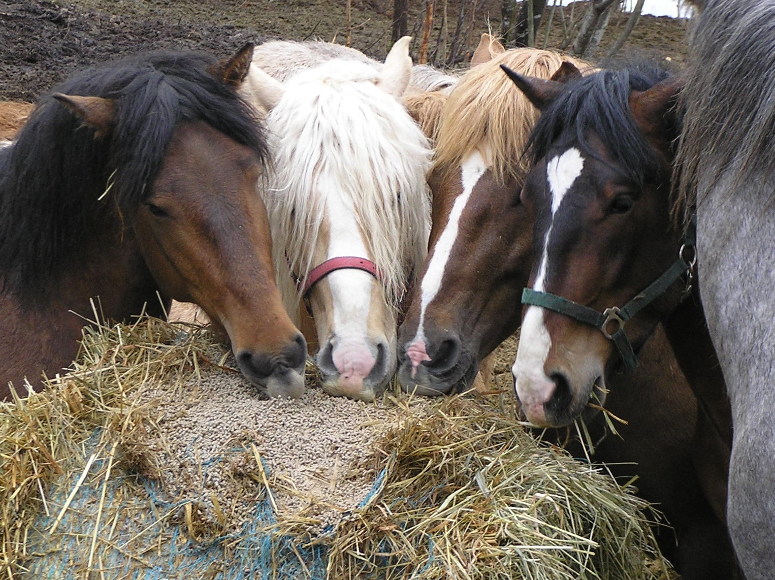 Group of differently coloured Finnhorse stallions and yearling colts.